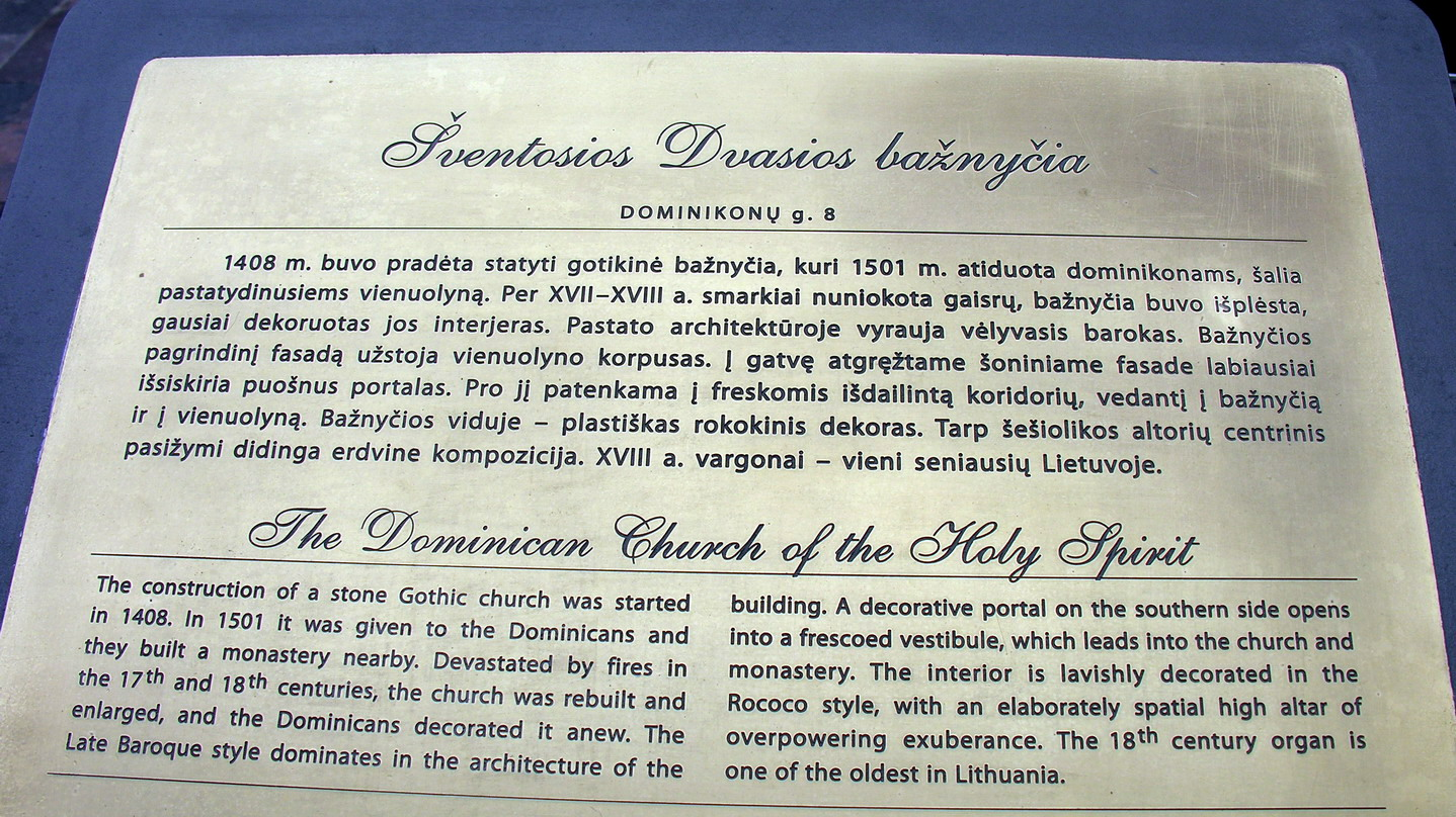 Information board of Church of the Holy Spirit in Vilnius (Domininkonų g. 8)